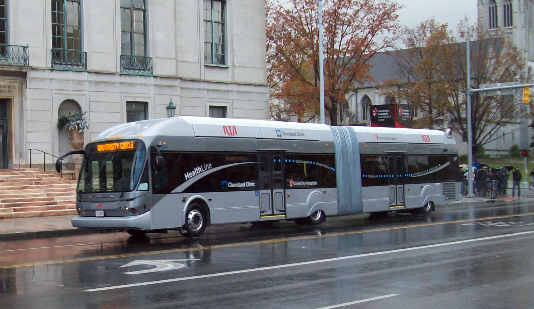 HealthLine bus in front of the Allen Memorial Medical Library in University Circle